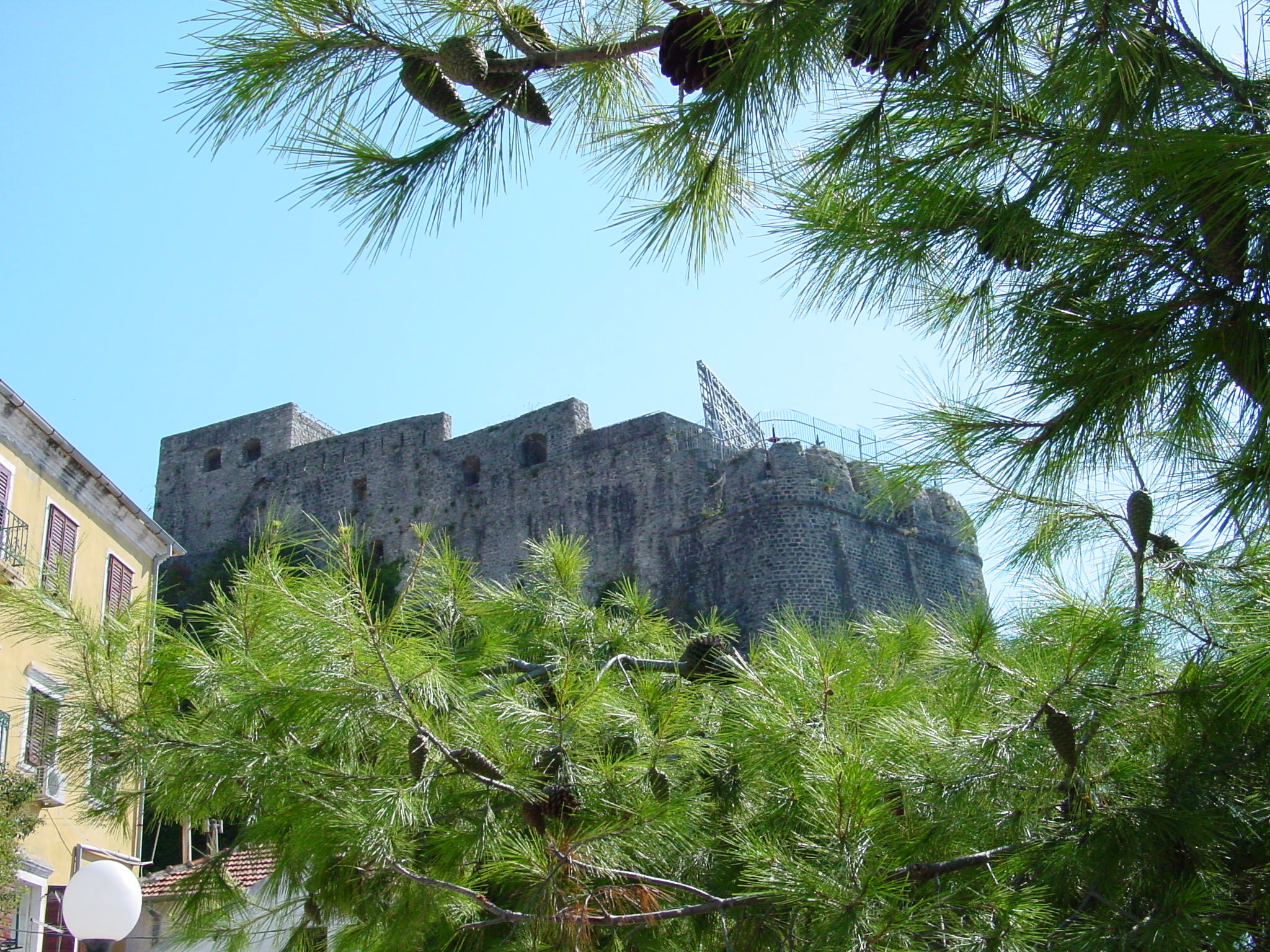 City Walls, Herceg Novi, Montenegro Srpski (latinica): Gradske zidine u Herceg Novom, Crna Gora